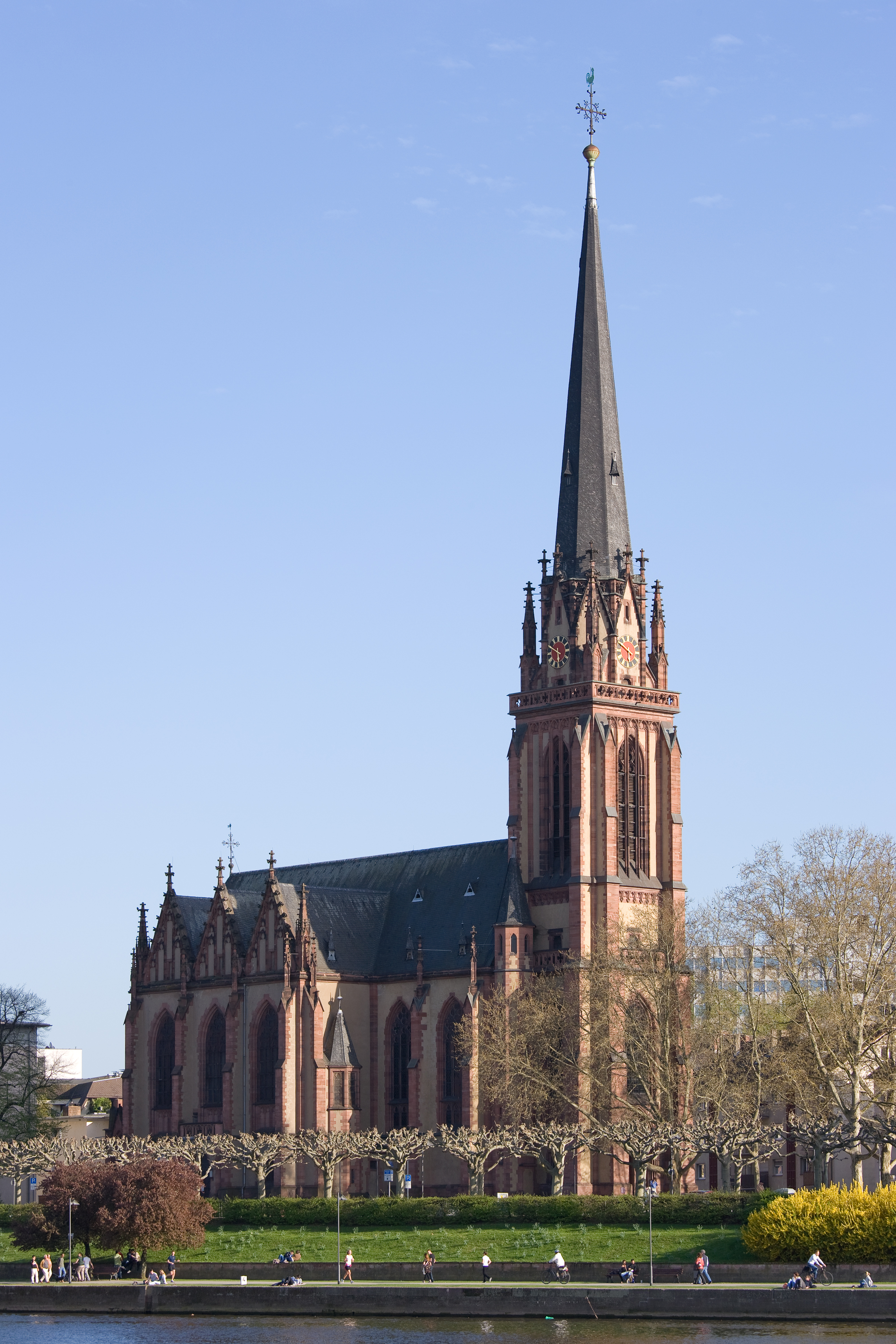 Frankfurt on the Main: Dreikönigskirche (Three Wise Men Church) as seen from the Mainkai (Main Quay)